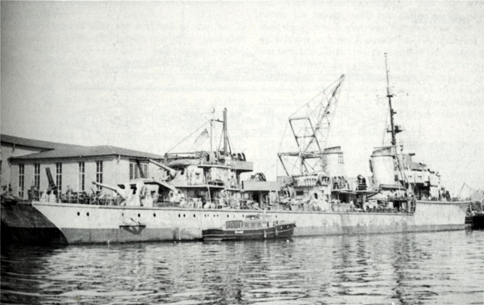 Z 29, a Destroyer Typ 36A in year 1945